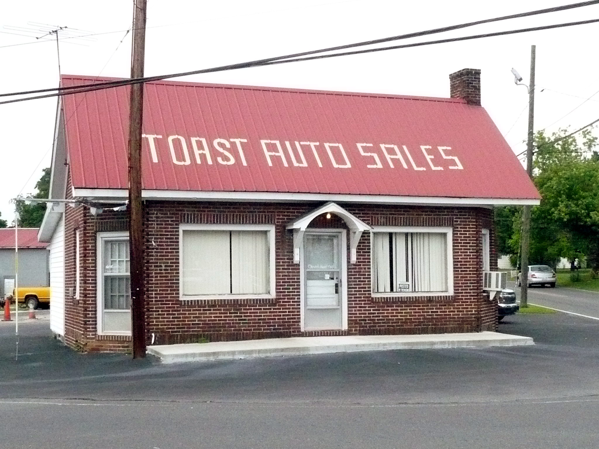 The Spracklin Manor Toast, United States. Photo taken on Thursday, June 4, 2009.